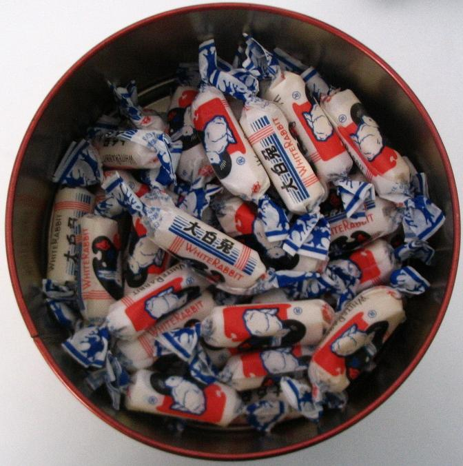 Tin of White Rabbit Creamy Candy taken by me. Hereby released into the public domain.大白兔奶糖